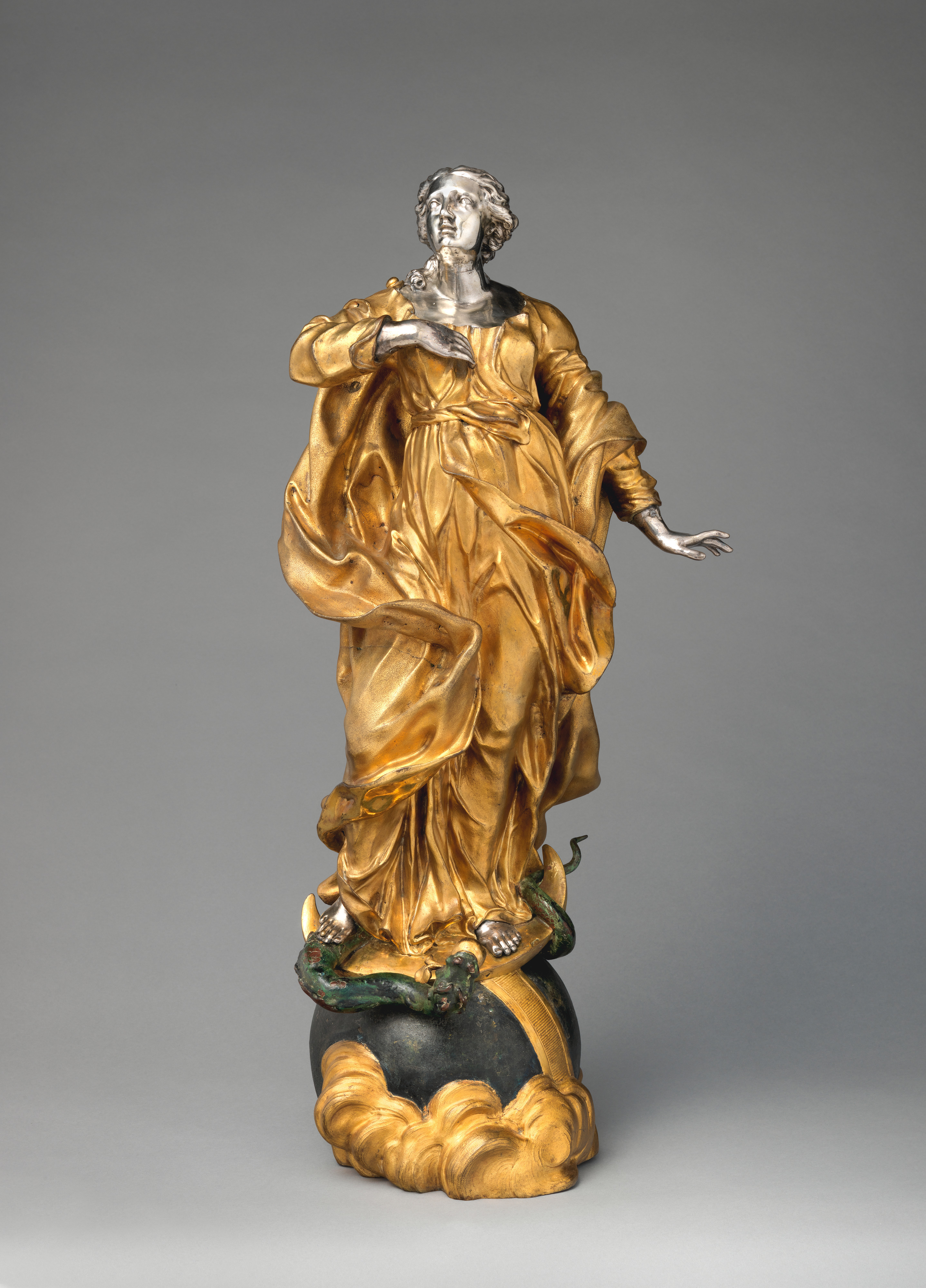 Italian, Naples; Statuette; Sculpture